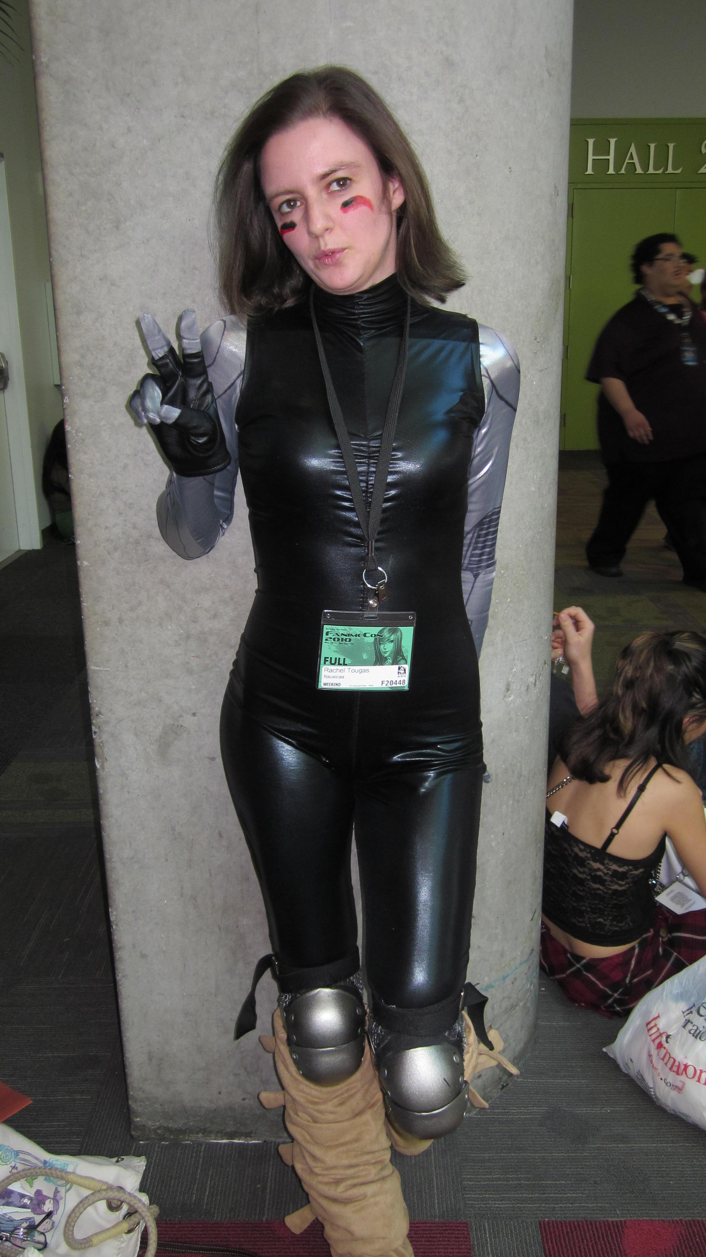 A cosplayer portraying Alita/Gally from Battle Angel Alita at FanimeCon 2010 in San Jose, California.